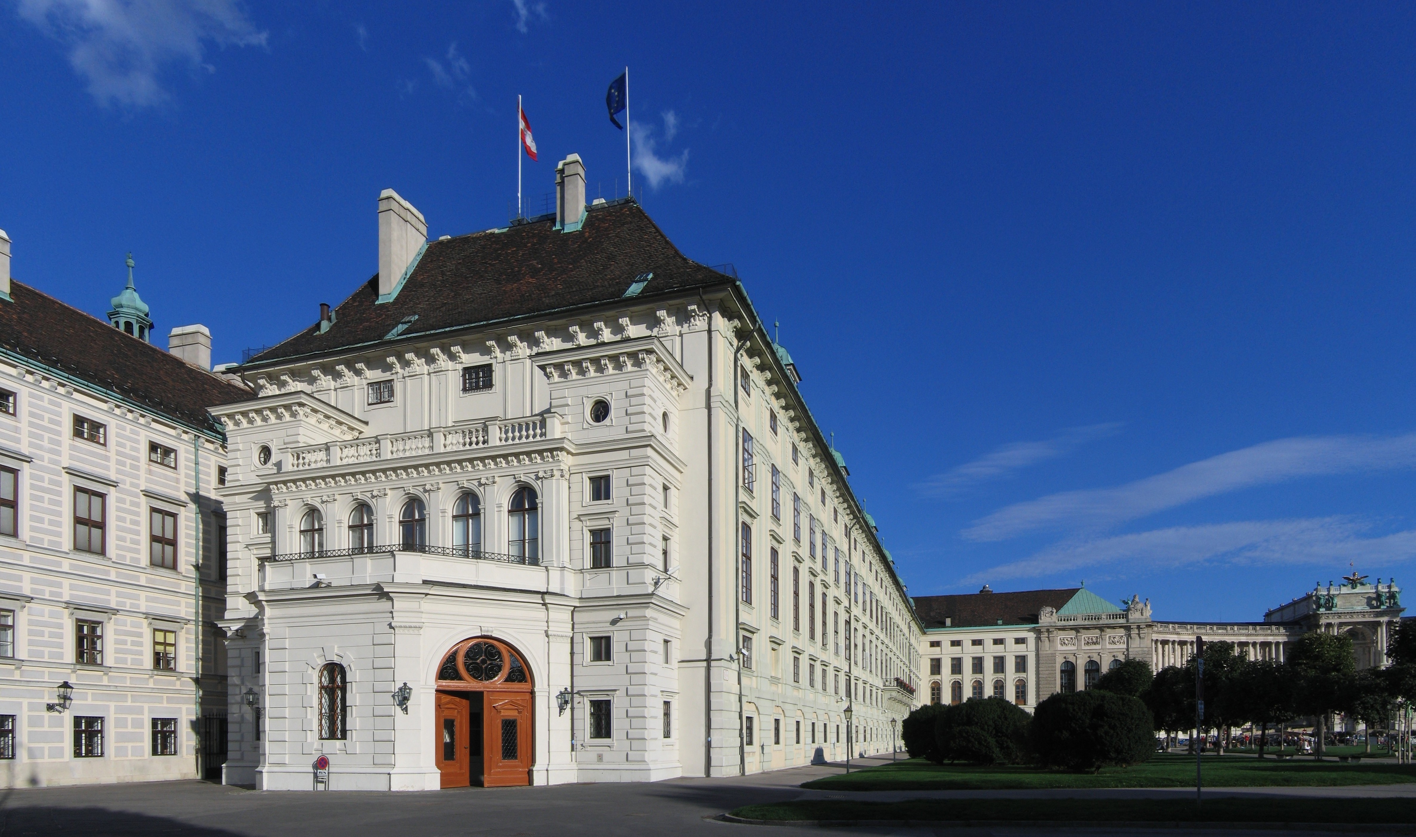 Leopoldinischer Trakt of Vienna Hofburg.